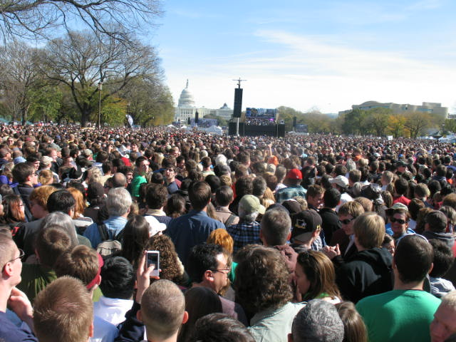 Rally to Restore Sanity, Washington DC, Oct 30, 2010